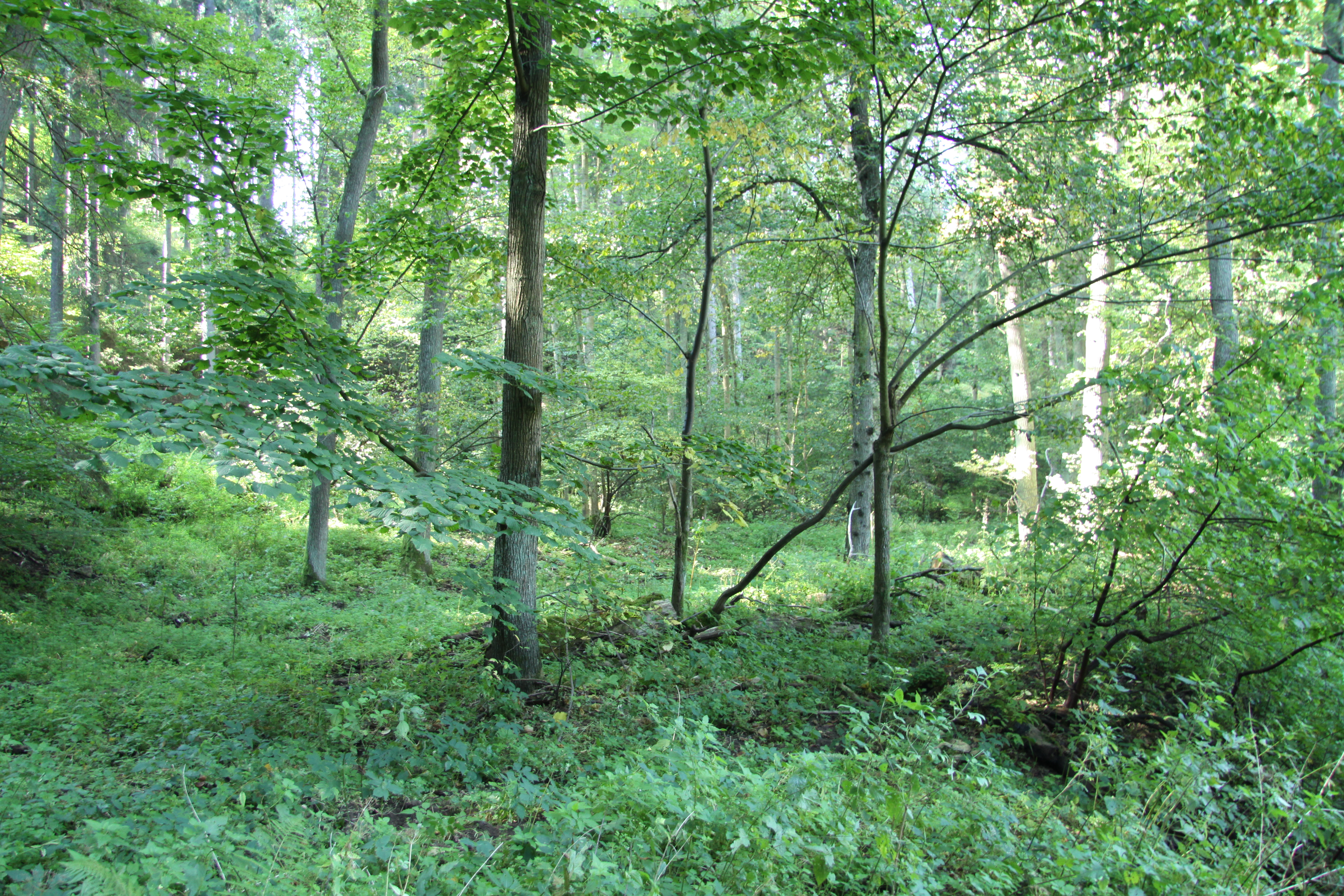 Natural monument V Obouch in Písek District, Czech Republic.